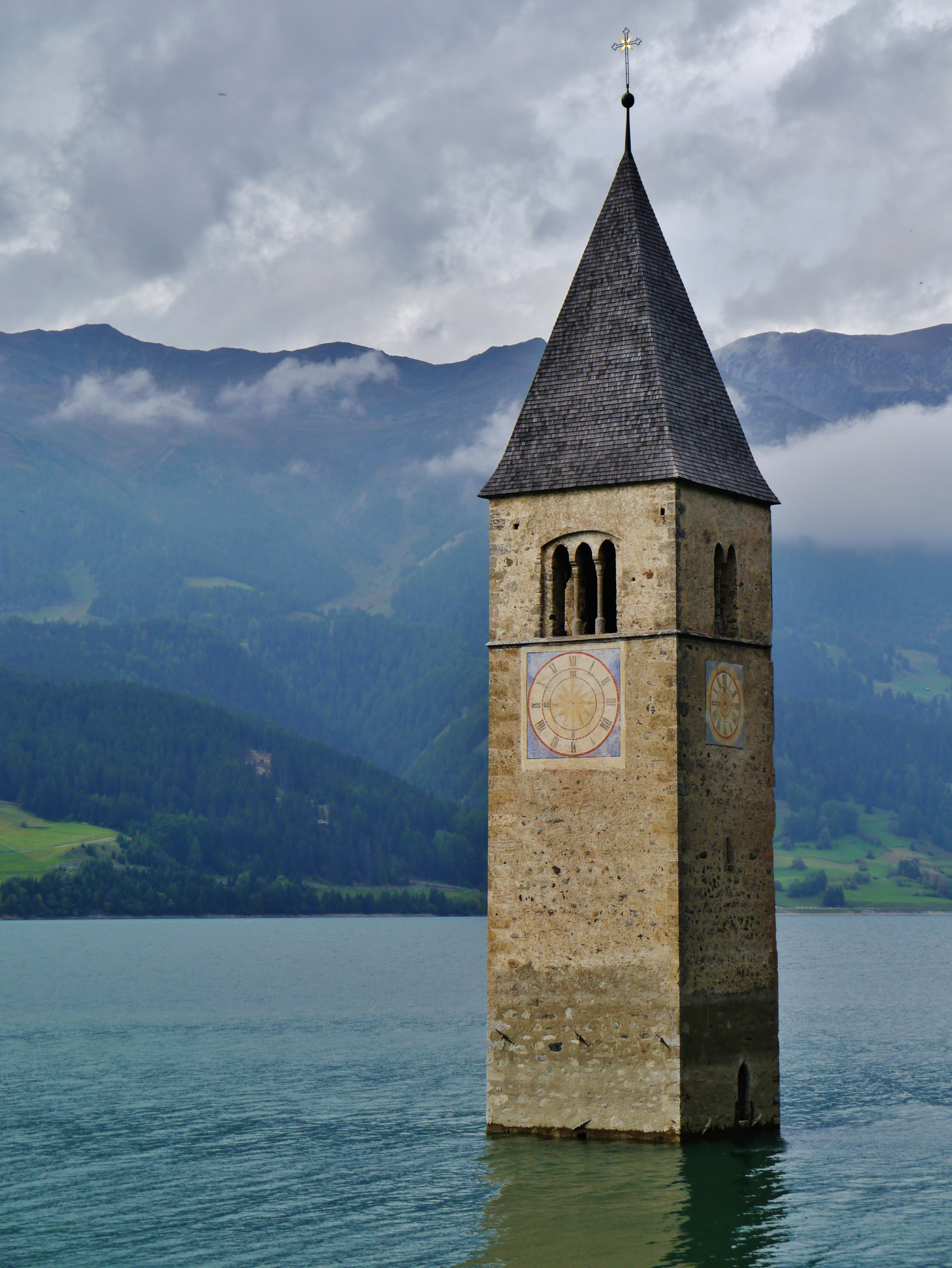 Church Tower of Old Graun inside Reschen Lake at Reschenpass, South Tyrol/Trentino-Alto Adige, Italy